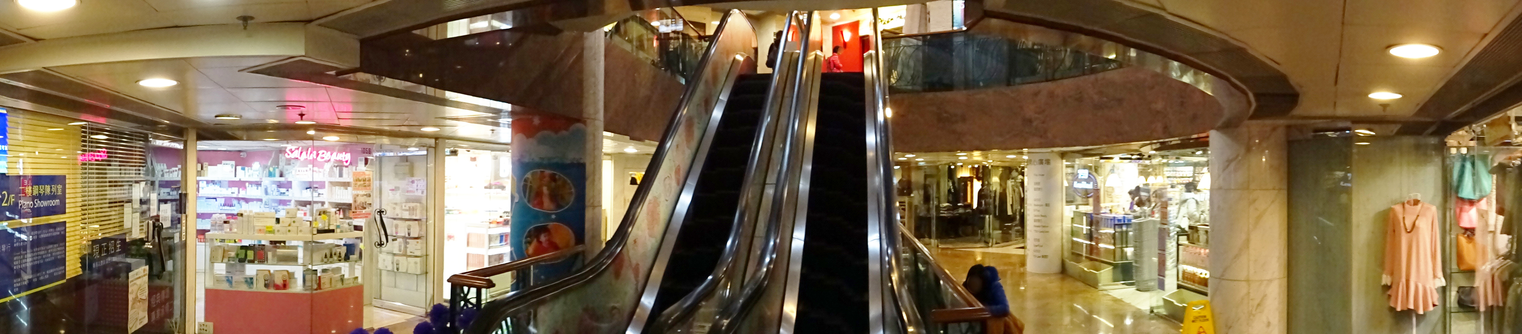 Yuen Long Landmark in Yuen Long, Hong Kong.